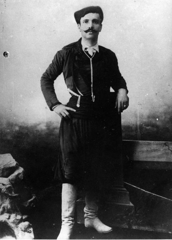 Portrait of Greek Army officer and guerrilla leader Georgios Katechakis (Kapetan Rouvas)